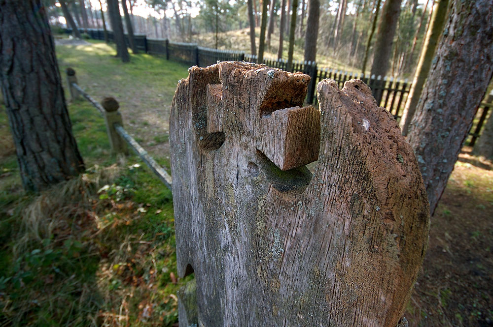 Krikstas - pagan burial marker in Nida